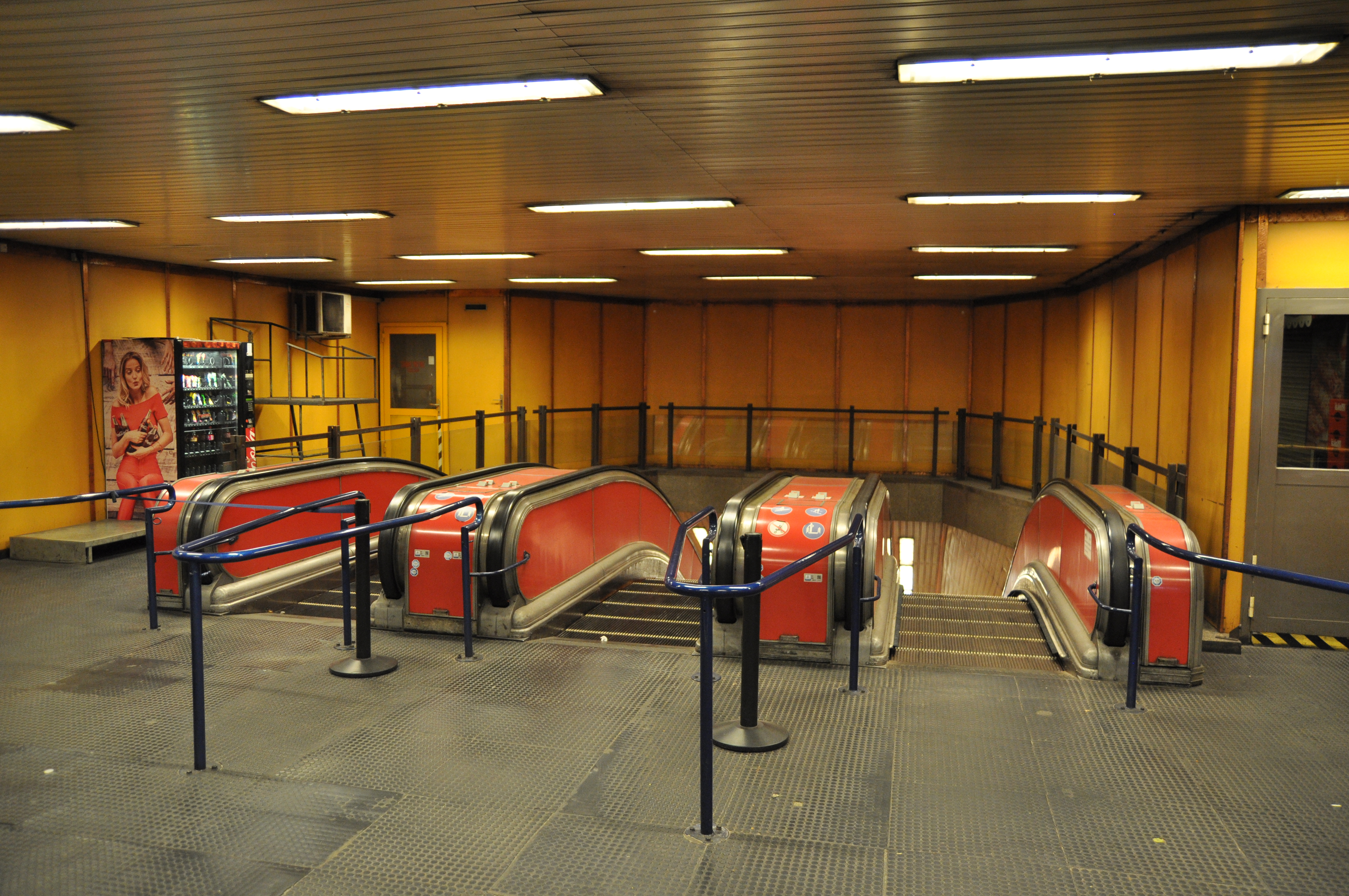 Budapest, metró 3, Klinikák